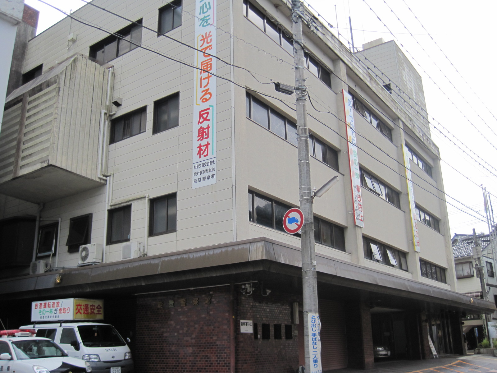 Noto Police Station (Noto town, Ishikawa prefecture)